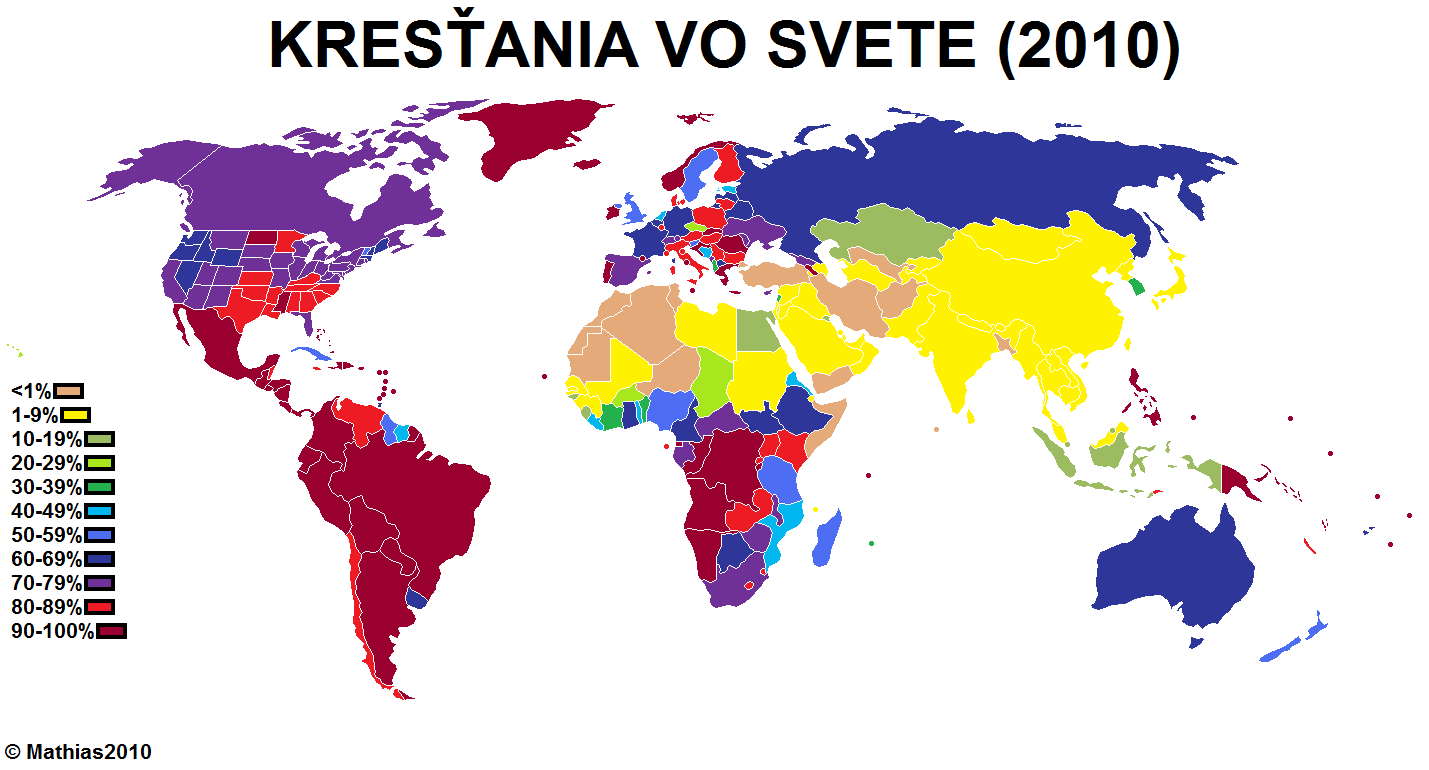 Christians in the world.